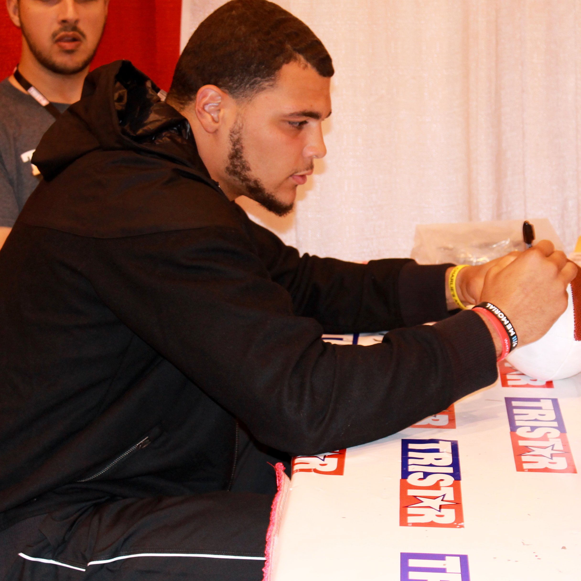 Professional football player Mike Evans signs autographs at an event in Houston in the summer of 2014.